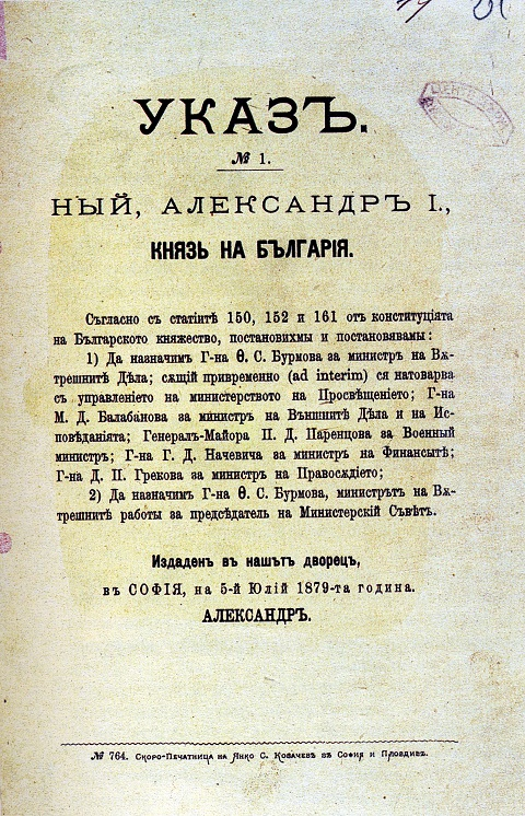 Edict of prince Alexander I Battenberg to form a government.